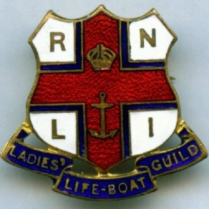 A badge from the Ladies Lifeboat Guild.